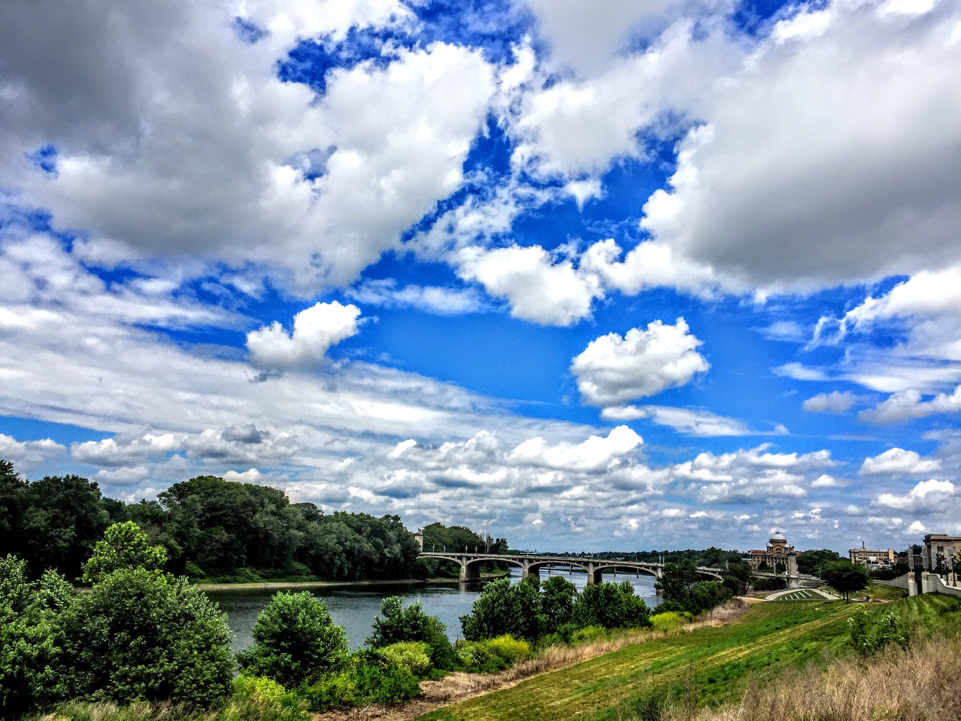 Wilkes-Barre River Commons, with Market Street Bridge and Luzerne County Courthouse in Background.